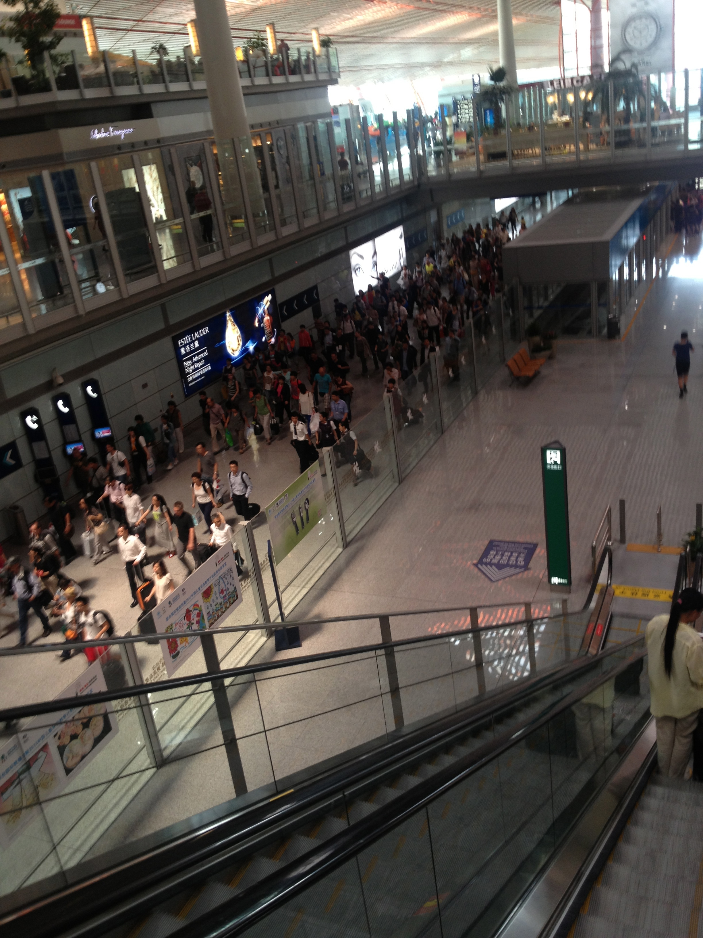 the Crowd in the immigration passage of Beijing Capital International Airport